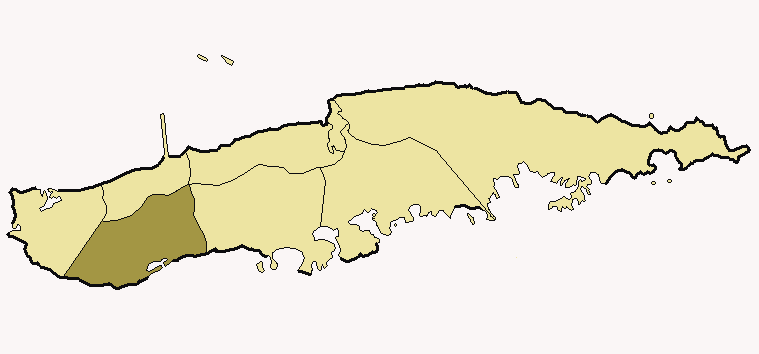 Map of Vieques (Puerto Rico) highlighting Llave ward.